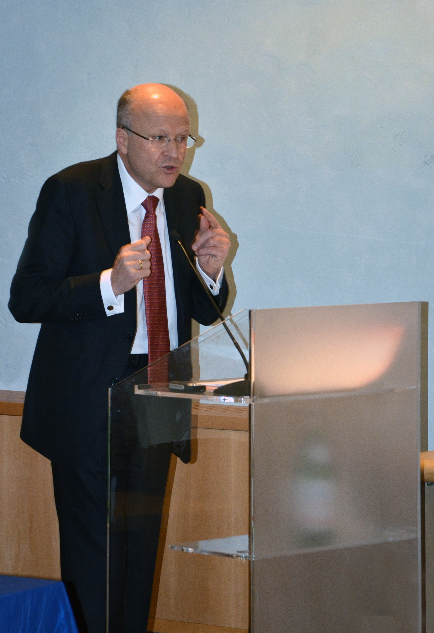 9 December 2015 - Historical Archives of the European Union - Villa Salviati